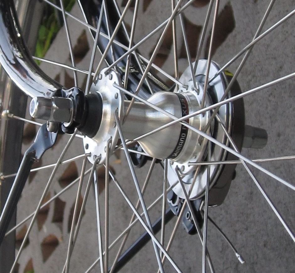 Shimano Nexus front hub and roller brake (special drum brake). Cropped version of File:Batavus_Fryslan.jpg